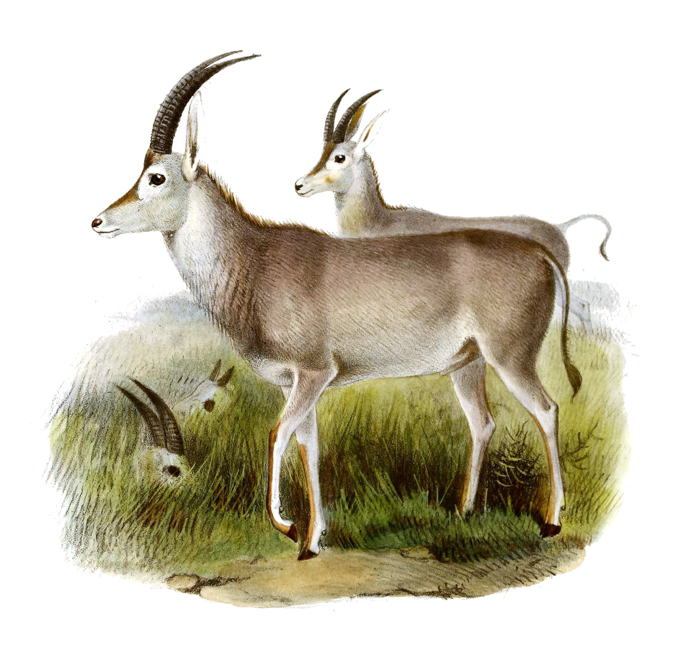 Hippotragus leucophaeus